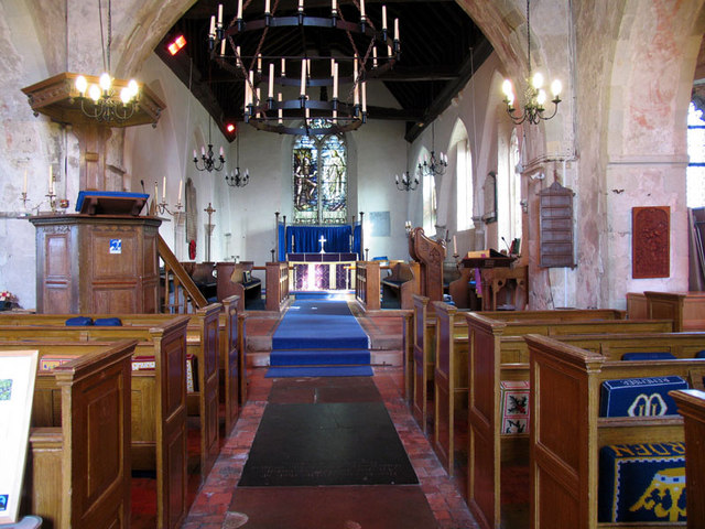 St Margaret, Lower Halstow, Kent - East end